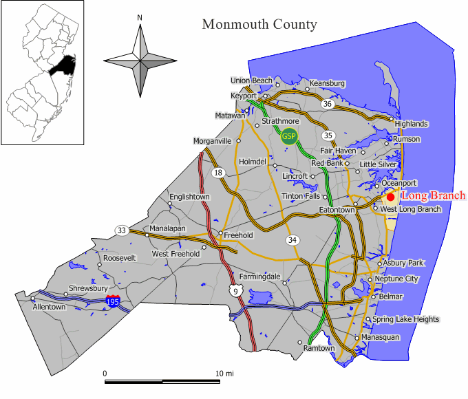 Source: Jim Irwin